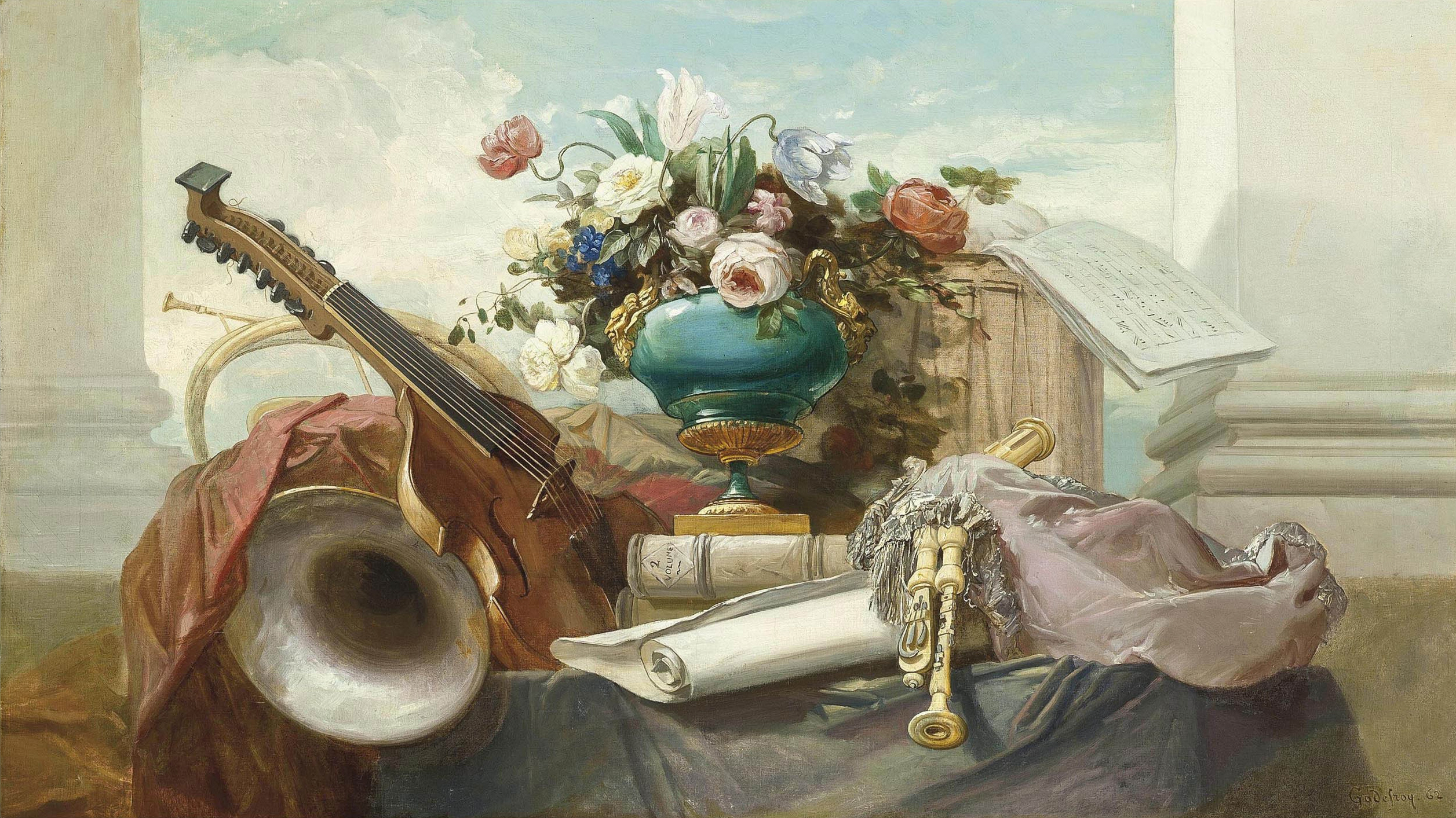 A violin, bagpipes, a drum, a score of music, and an ormolu-mounted vase with roses and other flowers on a draped ledge